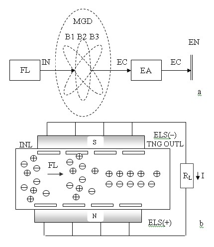 Molecular power 31. Block and design diagrams of the basic liquid magnetohydrodynamic power system